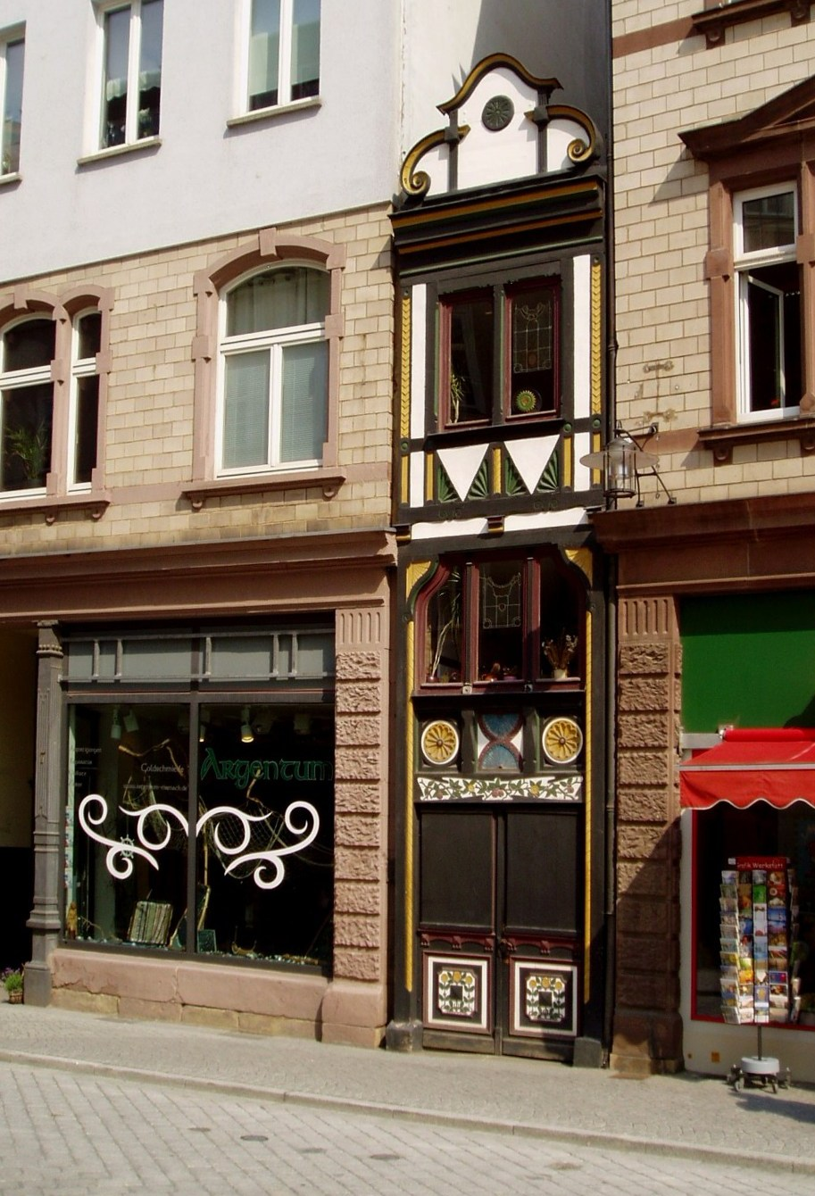 small house, Eisenach, Germany